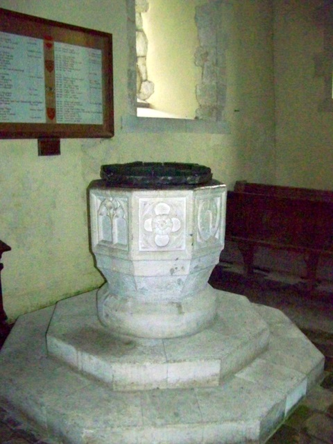 Font, St Leonard's Church, Hartley Mauditt The font dates from the 15th century.